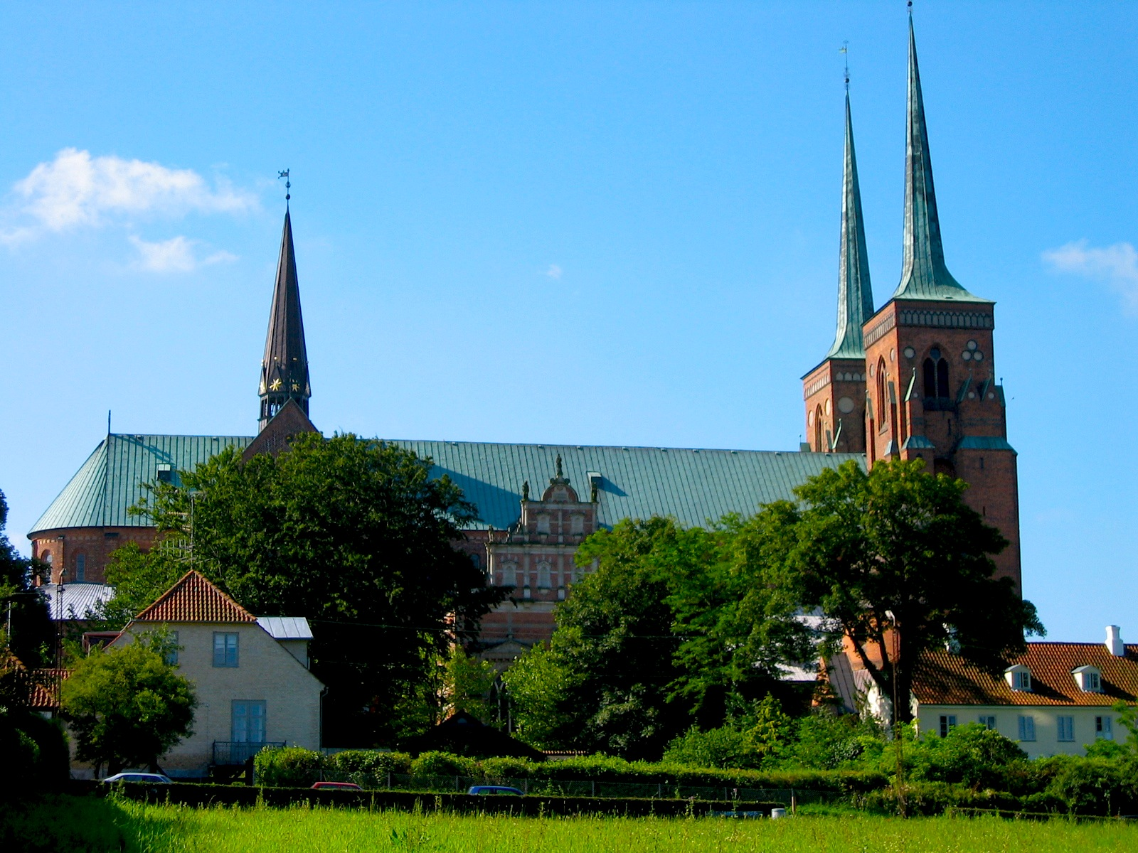 Roskilde Cathedral seen from the north